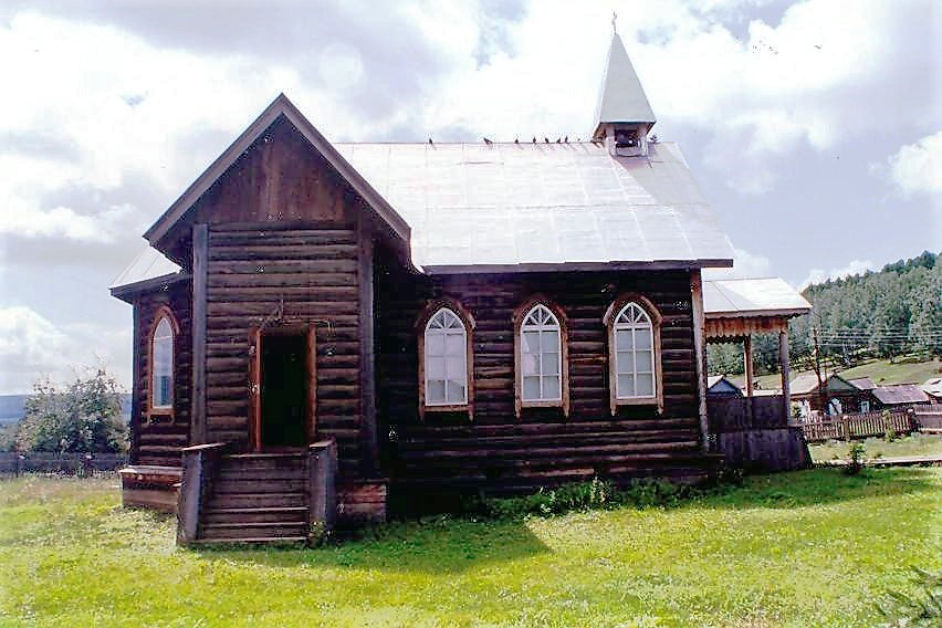 Church in Vershina, Polish village in Ust-Orda Buryatia